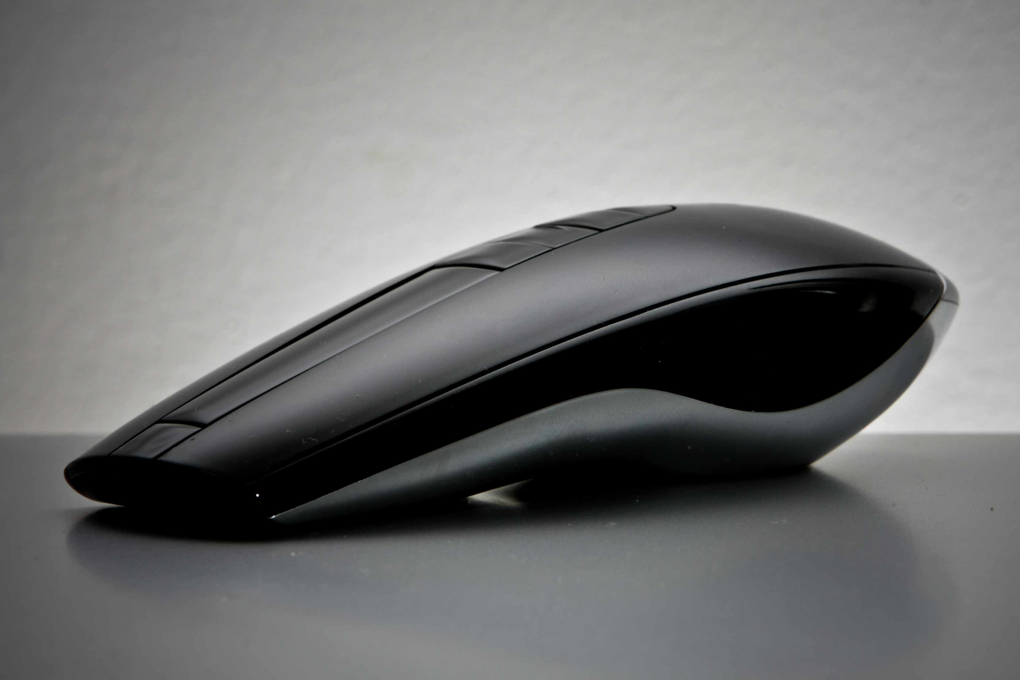 Logitech MX Air mouse is miiiiine! Isn't she a beauty? Shot using two flashes - 580 EX II on camera pointed at the ceiling and 430 EX under the table pointed at the wall.